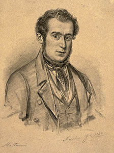 Carlo Matteucci (1811-1868), italian physician and physiologist